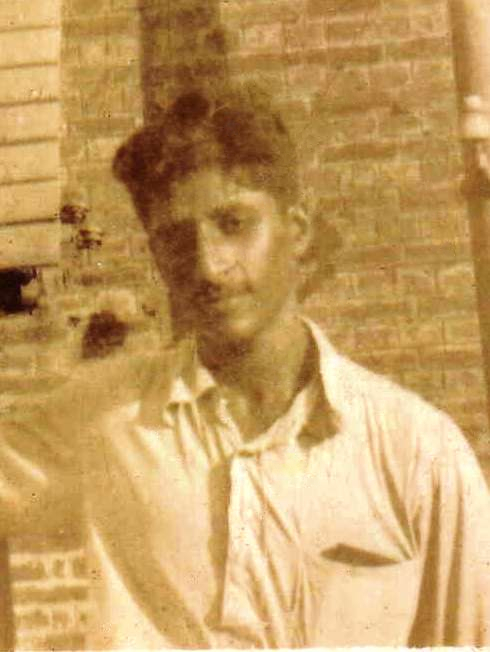 This is a picture of revolutionary Subodh Mukherjee in front of Barddhaman Junction railway station in 1940. Subodh Mukherjee was a leader of the Burmese Communist Movement.